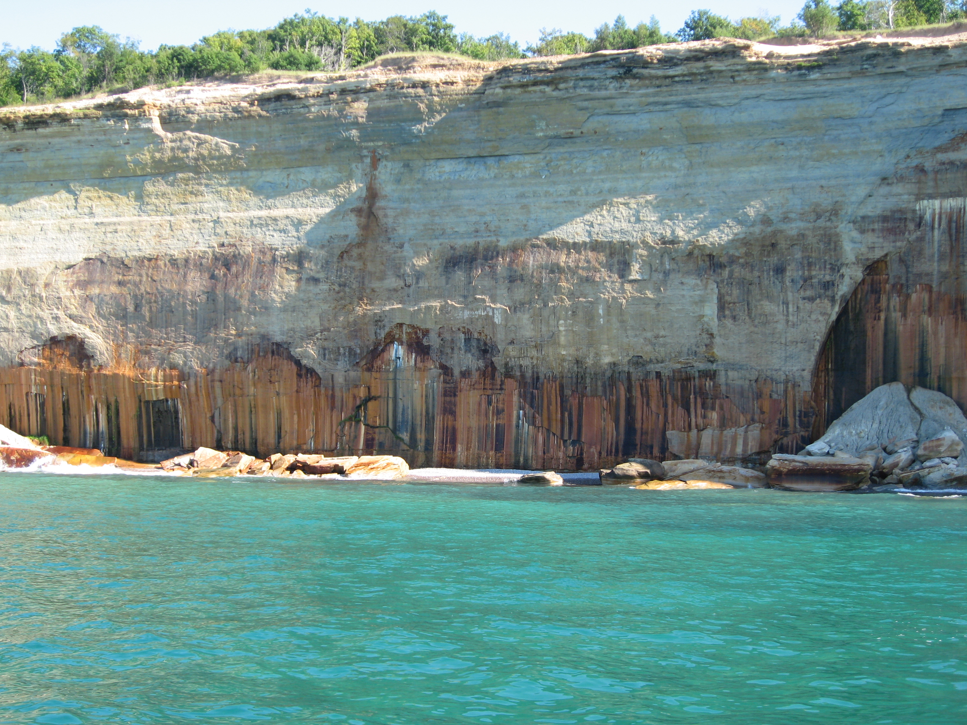 Painted Coves at Pictured Rocks National Lakeshore